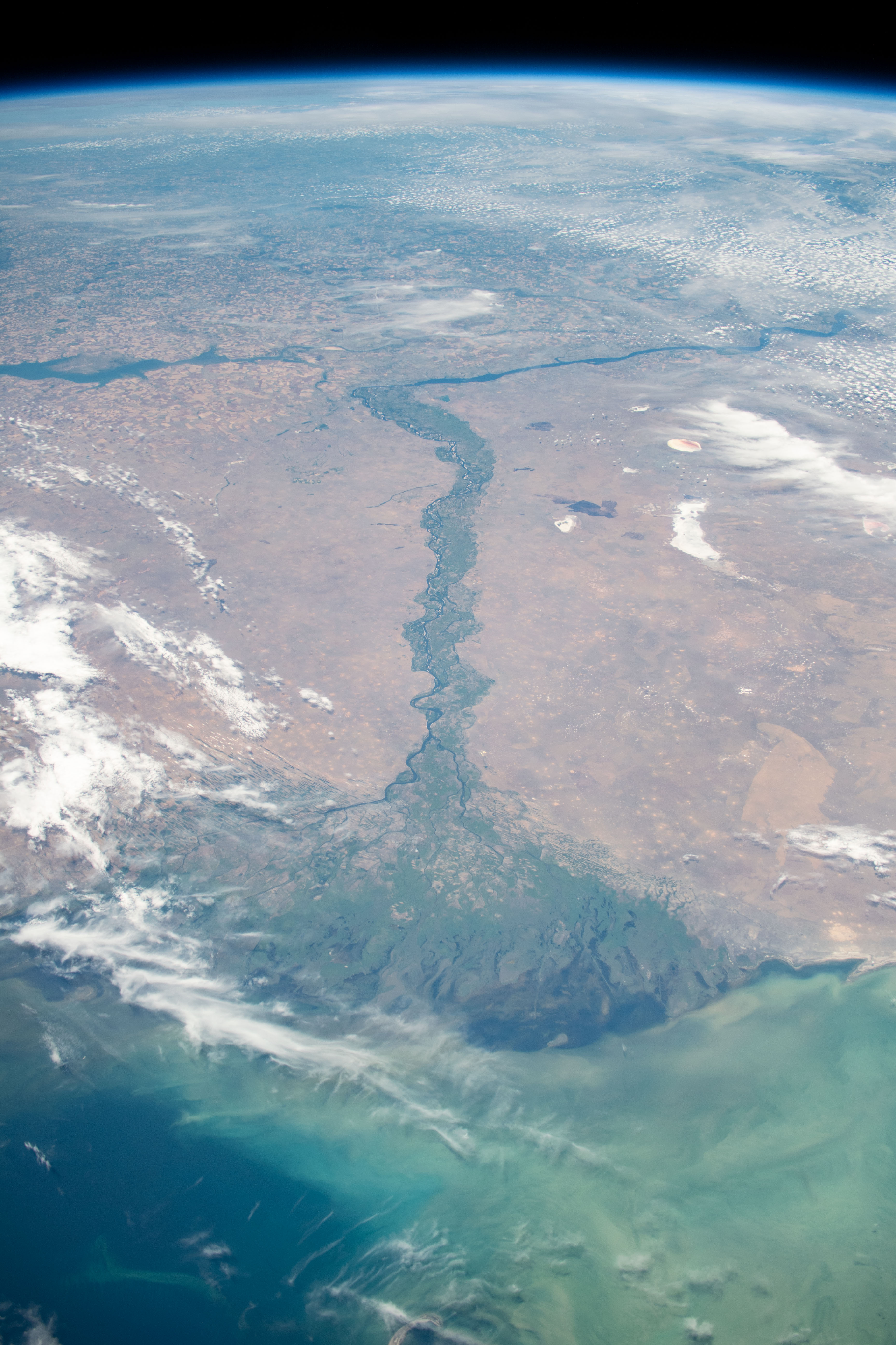 The Volga River is the longest river in Europe and runs through Russia with its delta flowing into the Caspian Sea just south of the Kazakhstan border. The International Space Station was orbiting above the Caspian Sea at an altitude of 256 miles when this photograph was taken during Expedition 60.